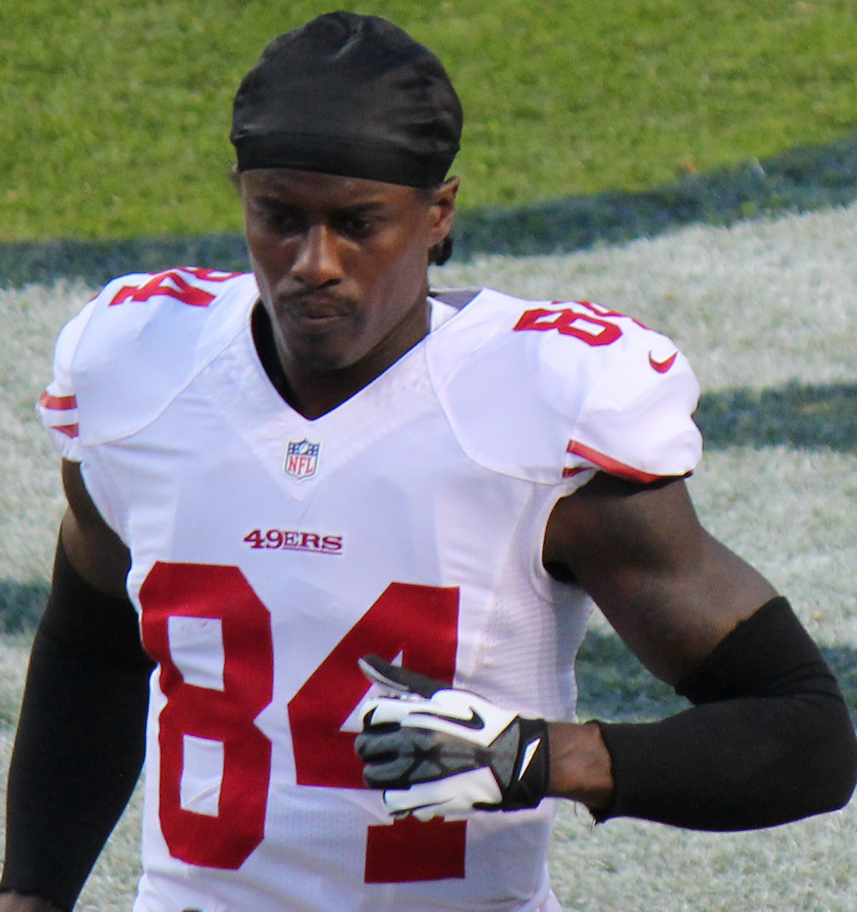 Brandon Lloyd, a player on the National Football League.